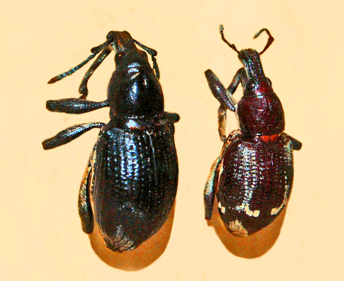 Rhinoscapha funebris from New Guinea